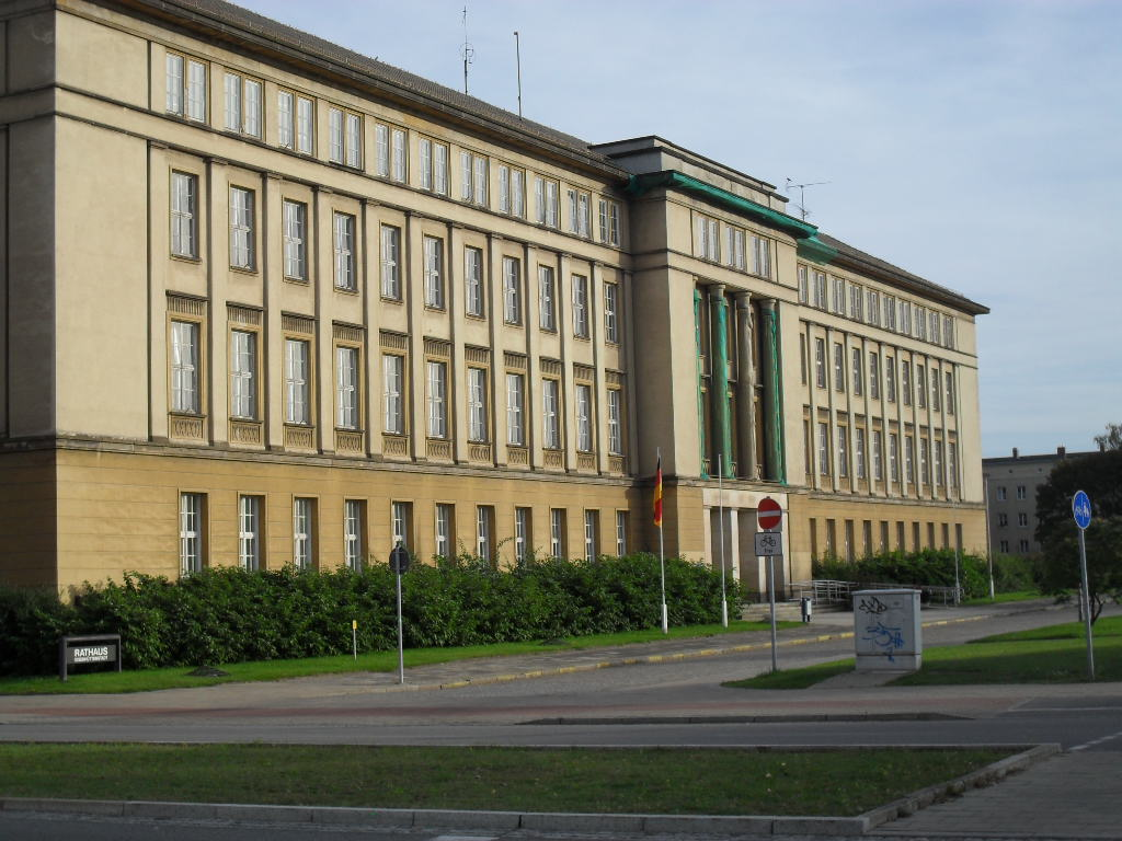 Town Hall Eisenhuettenstadt